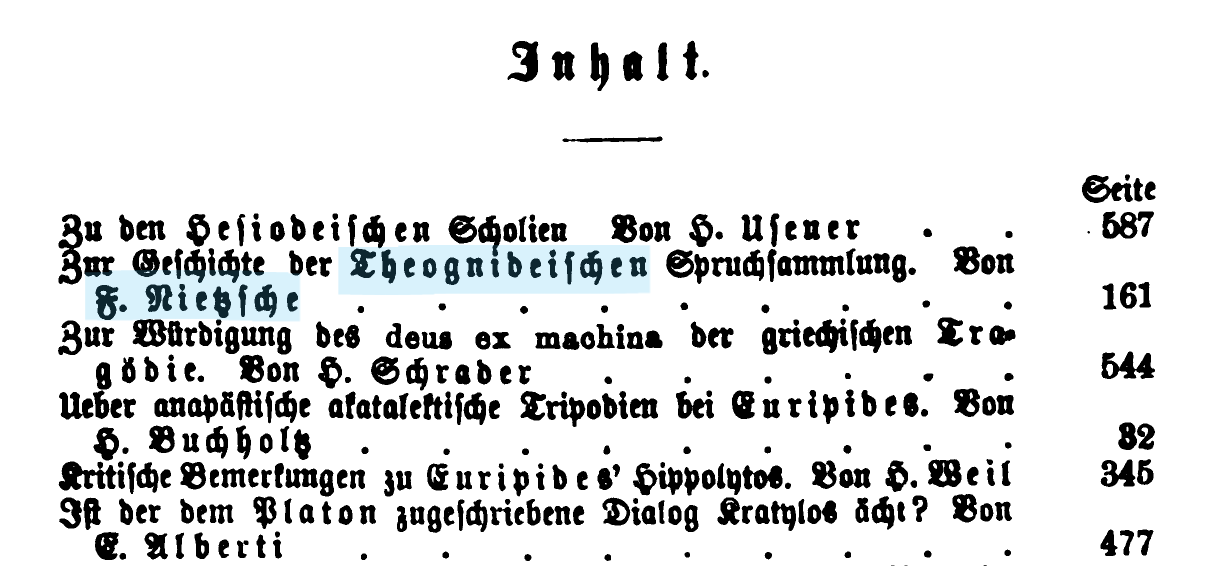 Index of the tome containing Nietzsche's "On the History of the Collection of the Theognideian Anthology", 1867. Names of Nietzsche and Theognis highlighted.